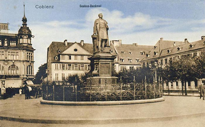 The Goeben Monument at Koblenz